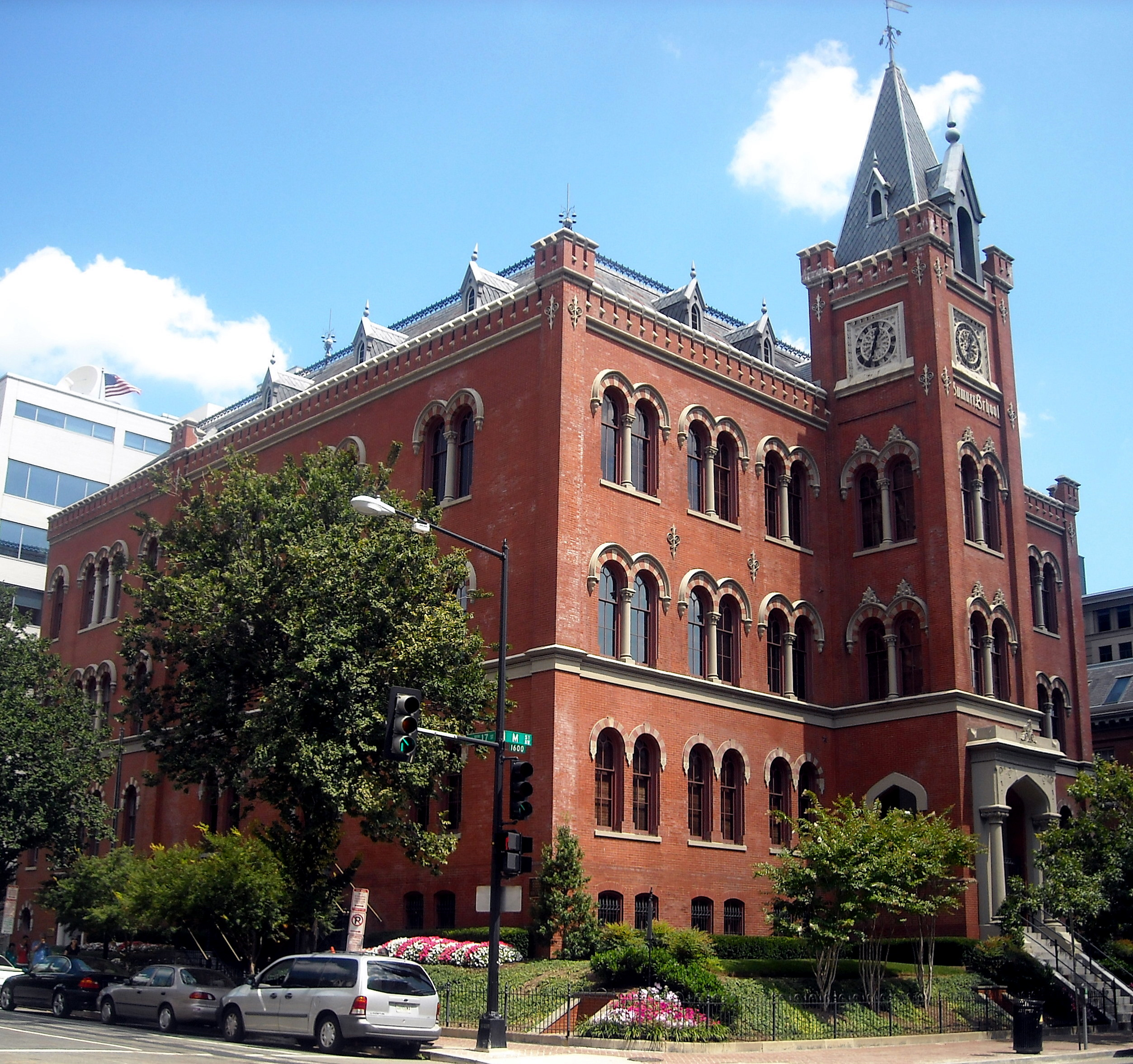 The Charles Sumner School located at 1201 17th Street, NW in Washington, D.C. The school was one of three public facilities constructed after the Civil War for the education of Washington, D.C.'s African American community. The building was named in honor of United States Senator Charles Sumner, an ardent abolitionist who opposed the Kansas-Nebraska Act, advocated the end of slavery in Washington, D.C., and assisted in founding the Freedman's Bureau. Designed by local architect Adolf Cluss in 1872, the Charles Sumner School is an example of Romanesque Revival architecture and is listed on the National Register of Historic Places. The building now houses a museum, conference center, and an archive for the DC public school system.